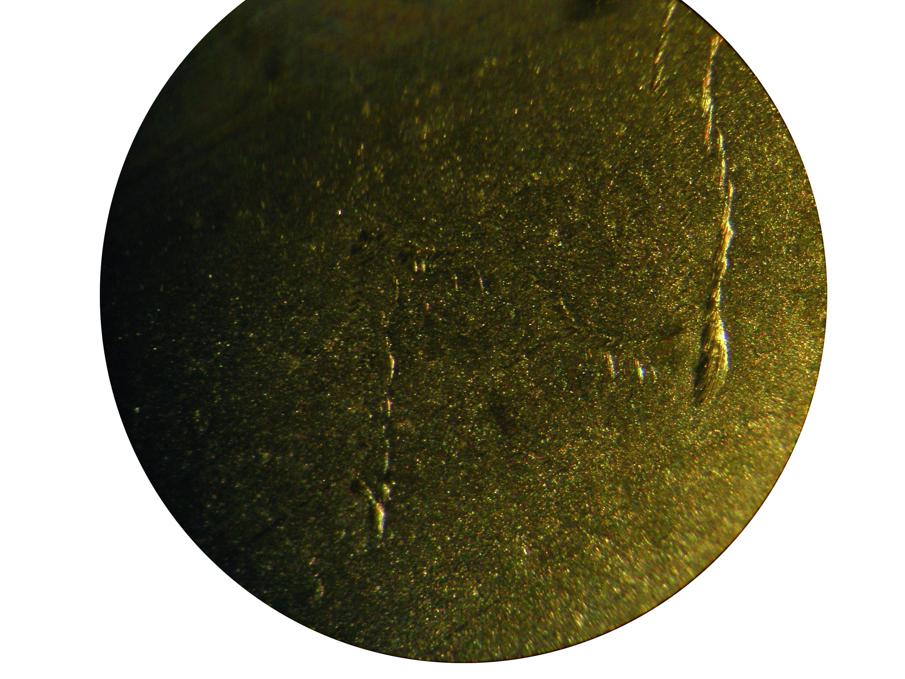 Corrected surface